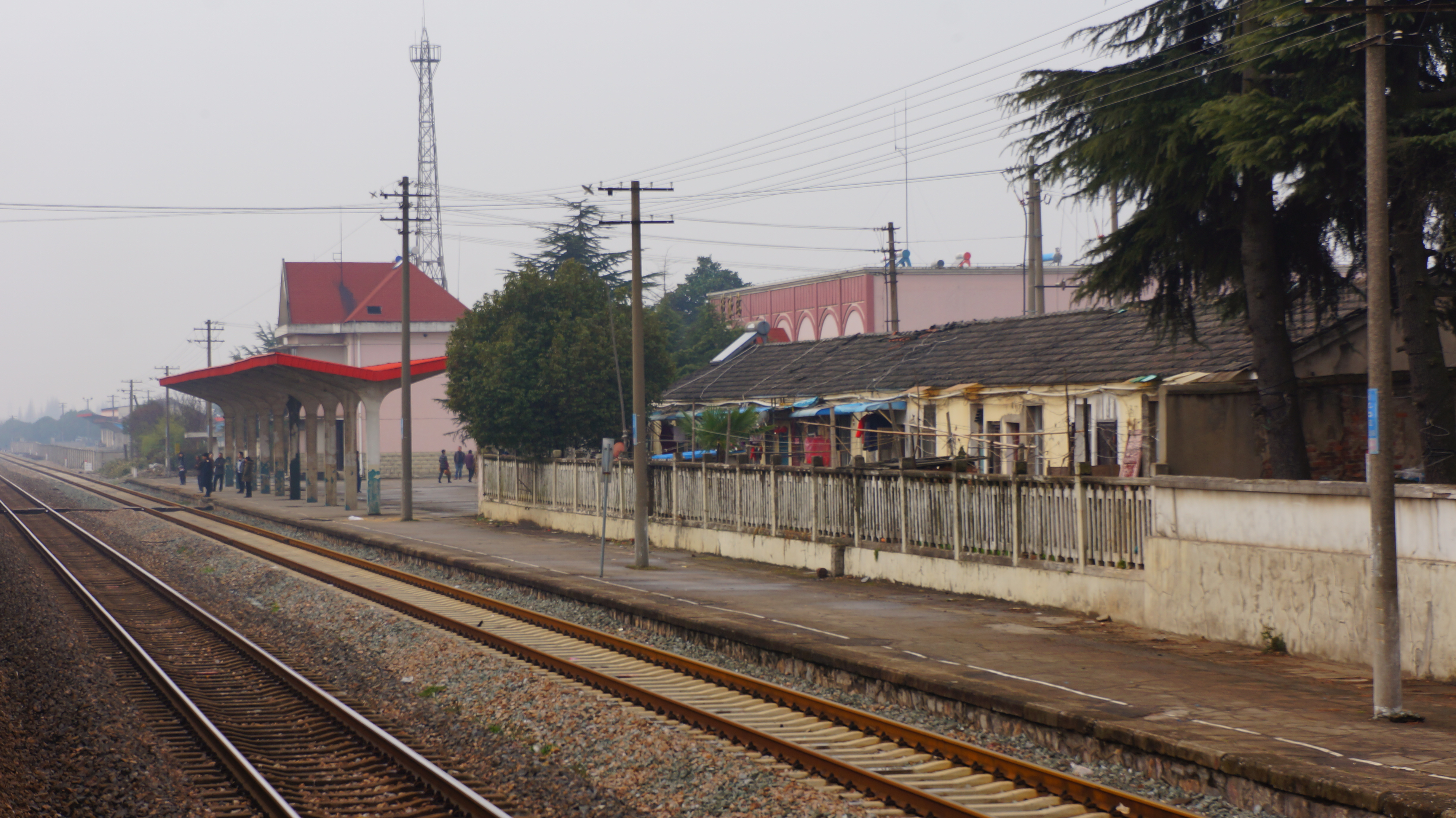 201601, Wanzhi Railway Station